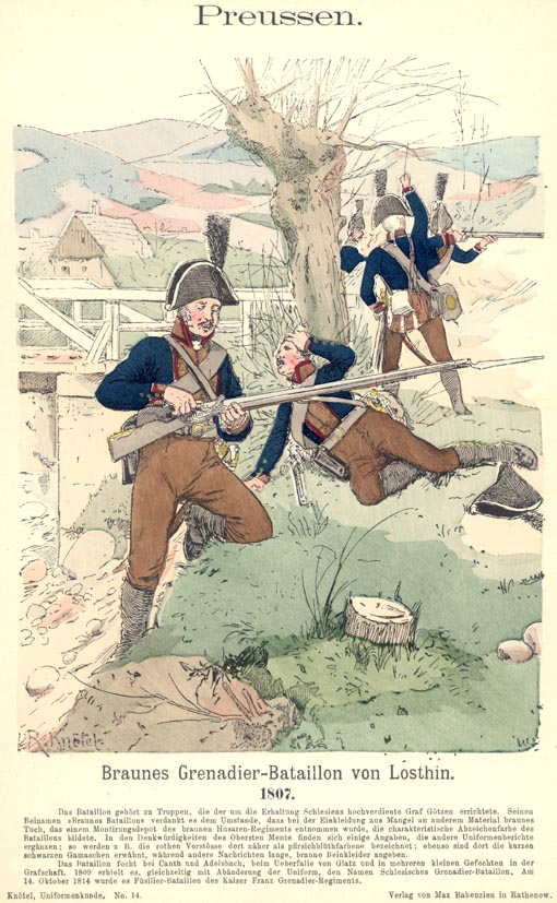 Preußen. Braunes Grenadier-Bataillon von Losthin. 1807